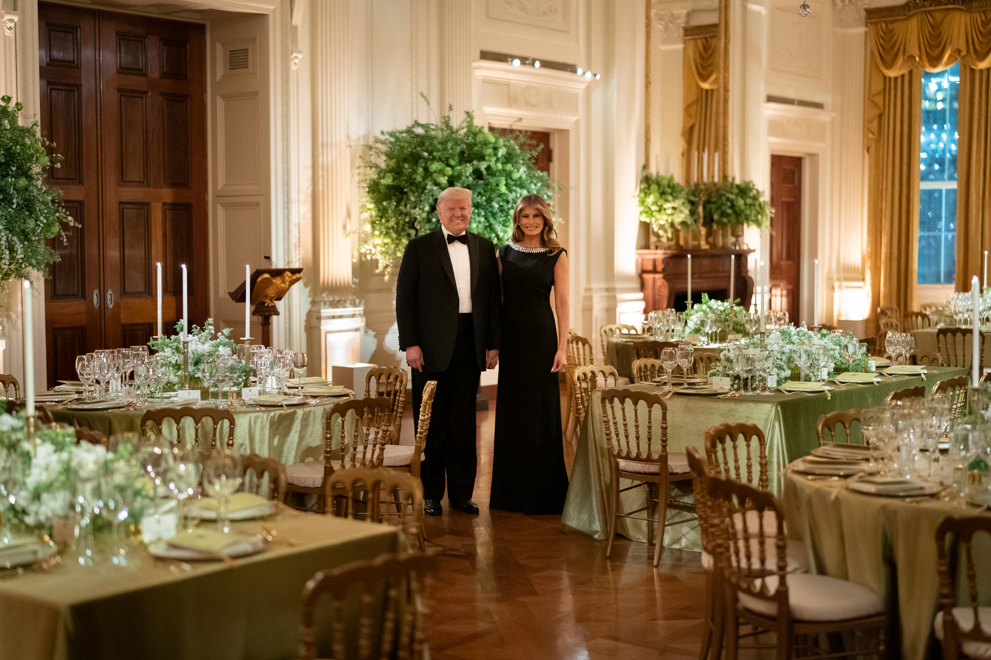 President Donald J. Trump and First Lady Melania Trump pose for a portrait in the East Room of the White House Sunday, Feb. 9, 2020, prior to attending the Governors’ Ball. (Official White House Photo by Andrea Hanks)